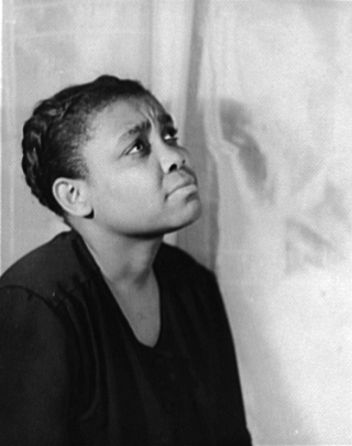 Photo of soprano opera singer Ruby Elzy as the original Serena in George Gershwin's 1935 opera Porgy and Bess. Portrait of Ruby Elzy, Porgy & Bess, 1935, LOT 12735, no. 361